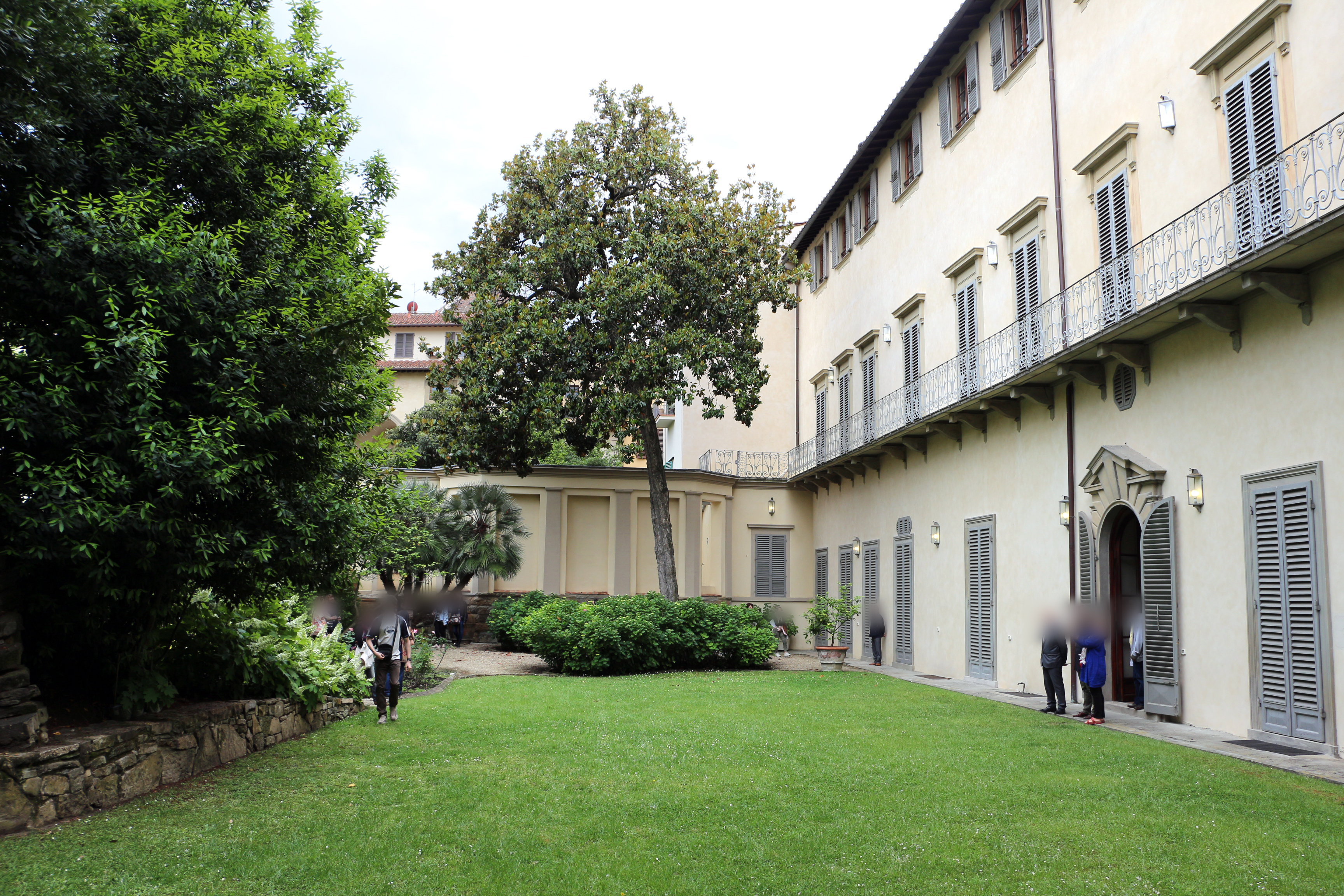 Palazzo Gerini